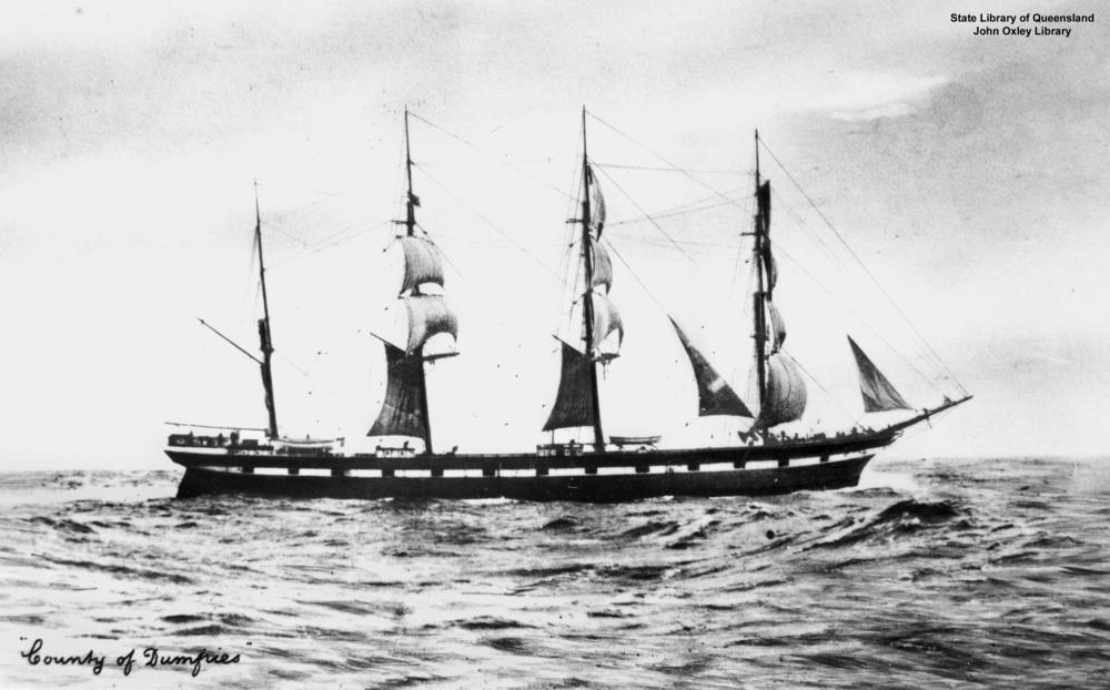 County of Dumfries (ship) "Iron ship built in 1878 by Barclay, Curle & Co., Glasgow. Dimensions 81,12×11,78×7,16 meters [266'2"×38'8"×23'5"] and tonnage 1718 GRT, 1640 NRT and 1580 tons under deck." Renamed Sovinto under Finnish owners, 1905.[1]